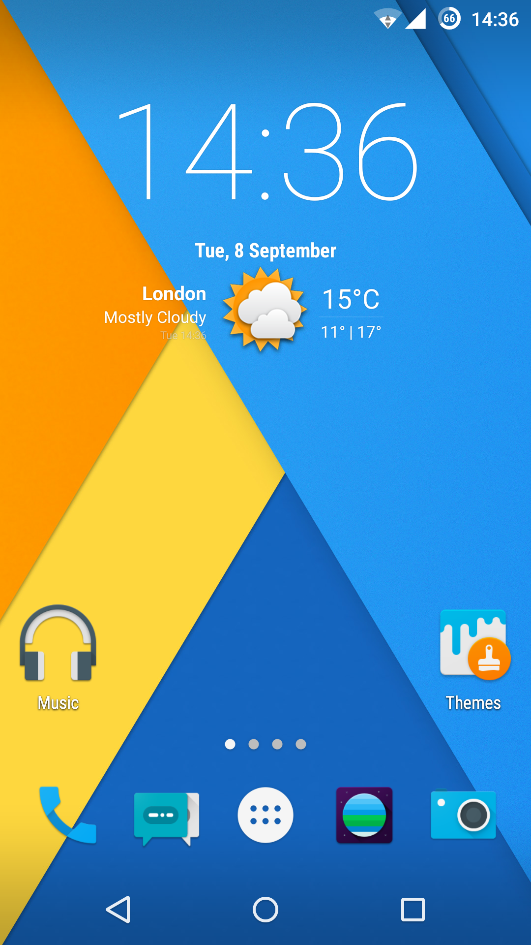 Screenshot of CyanogenMod 12.1 homescreen; build cm-12.1-YOG4P from 15th August 2015